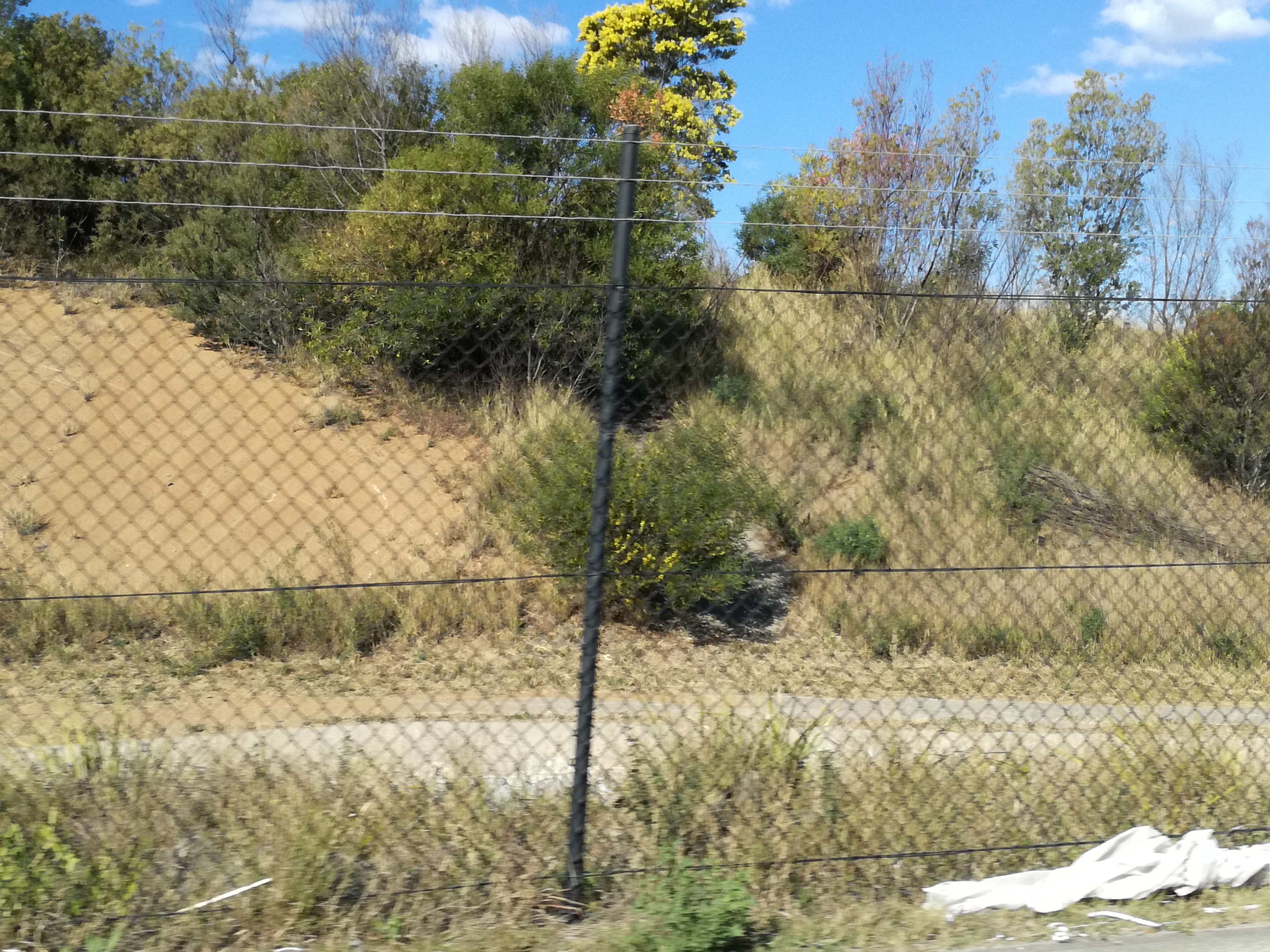 Prospect Hill vegetation in Pemulwuy, on sandstone.